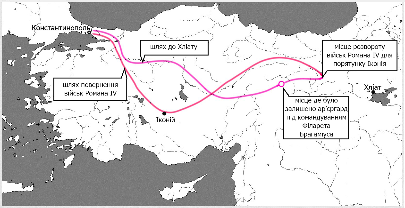 March of Emperor Roman IV Army to Hliat (1069)